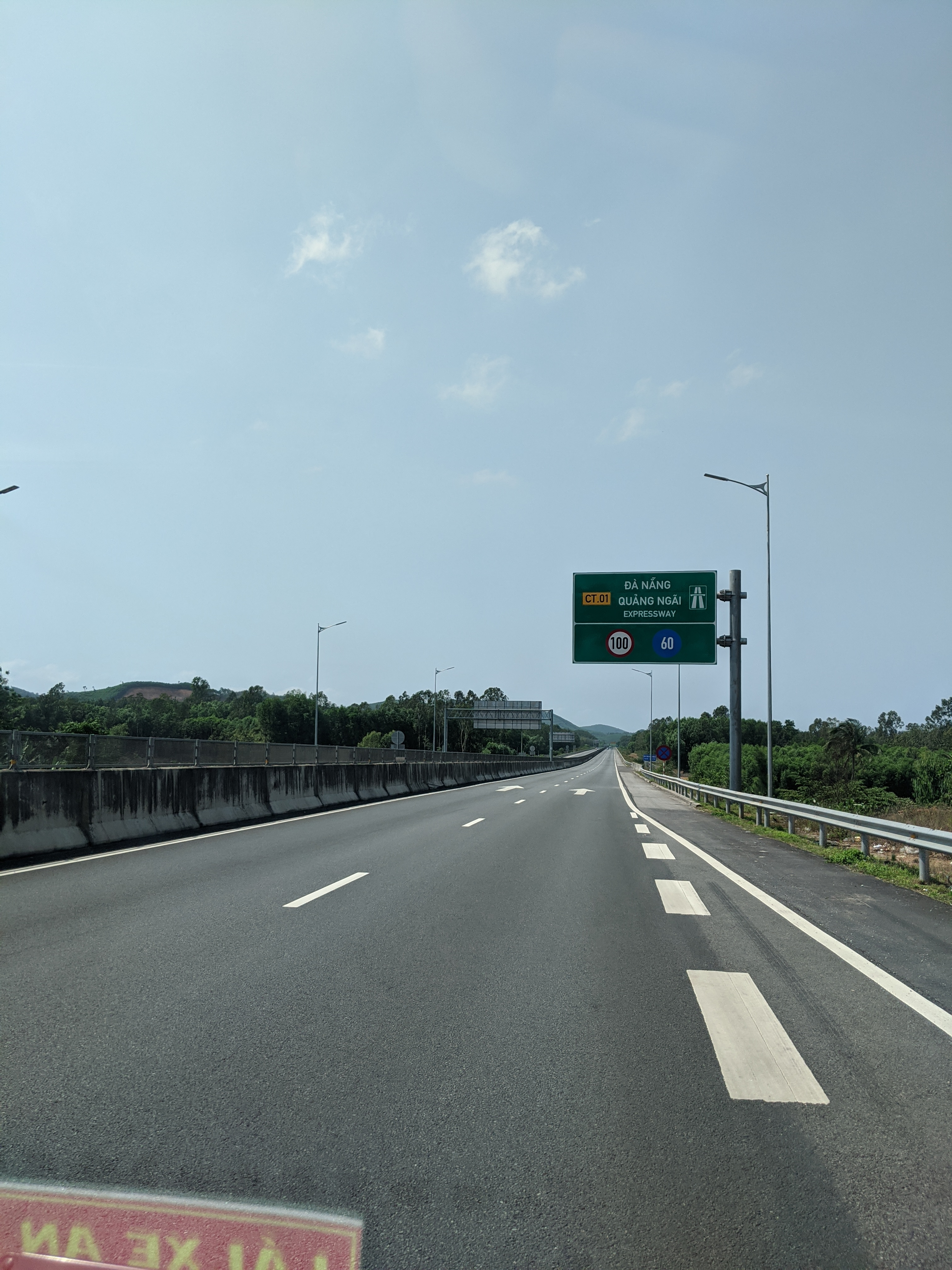 North–South expressway (Vietnam) in Quang Nam Province.